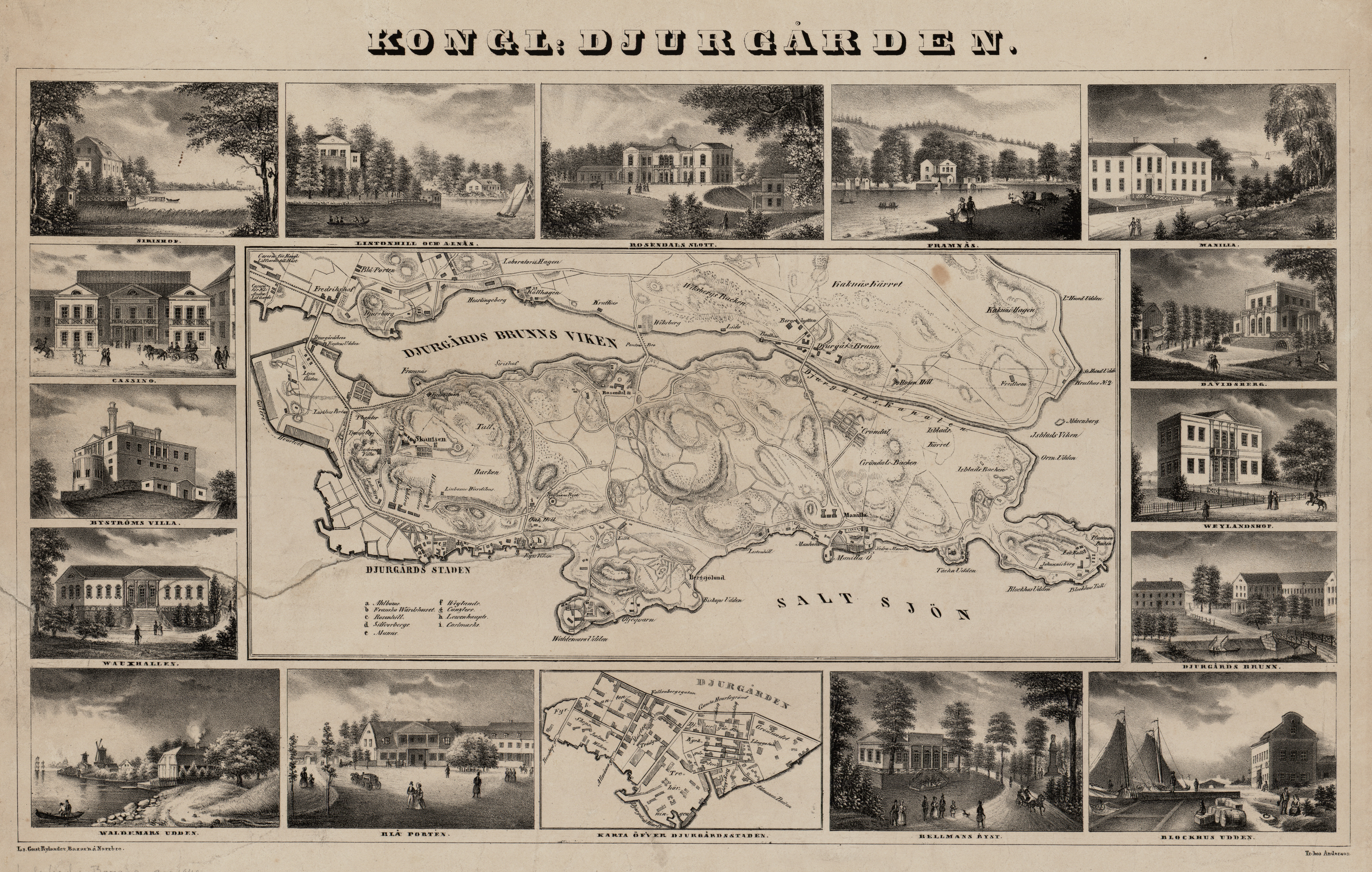 KARTAKongl. Djurgården. [år 1845? el. 1844]Karta över Djurgården, , som är inramad med 16 illustationer med rubrikerna: Sirishof, Listonhill och Alnäs, Rosendals slott, Framnäs, Manilla, Davidsberg, Weylandshof, Djurgårds brunn, Blockhus udden, Bellmans byst, Karta öfver Djurgårdsstaden, Blå porten, Waldermars udden, Wauxhallen, Byströms villa, Cassino.Stockholms stadsmuseum, Sweden